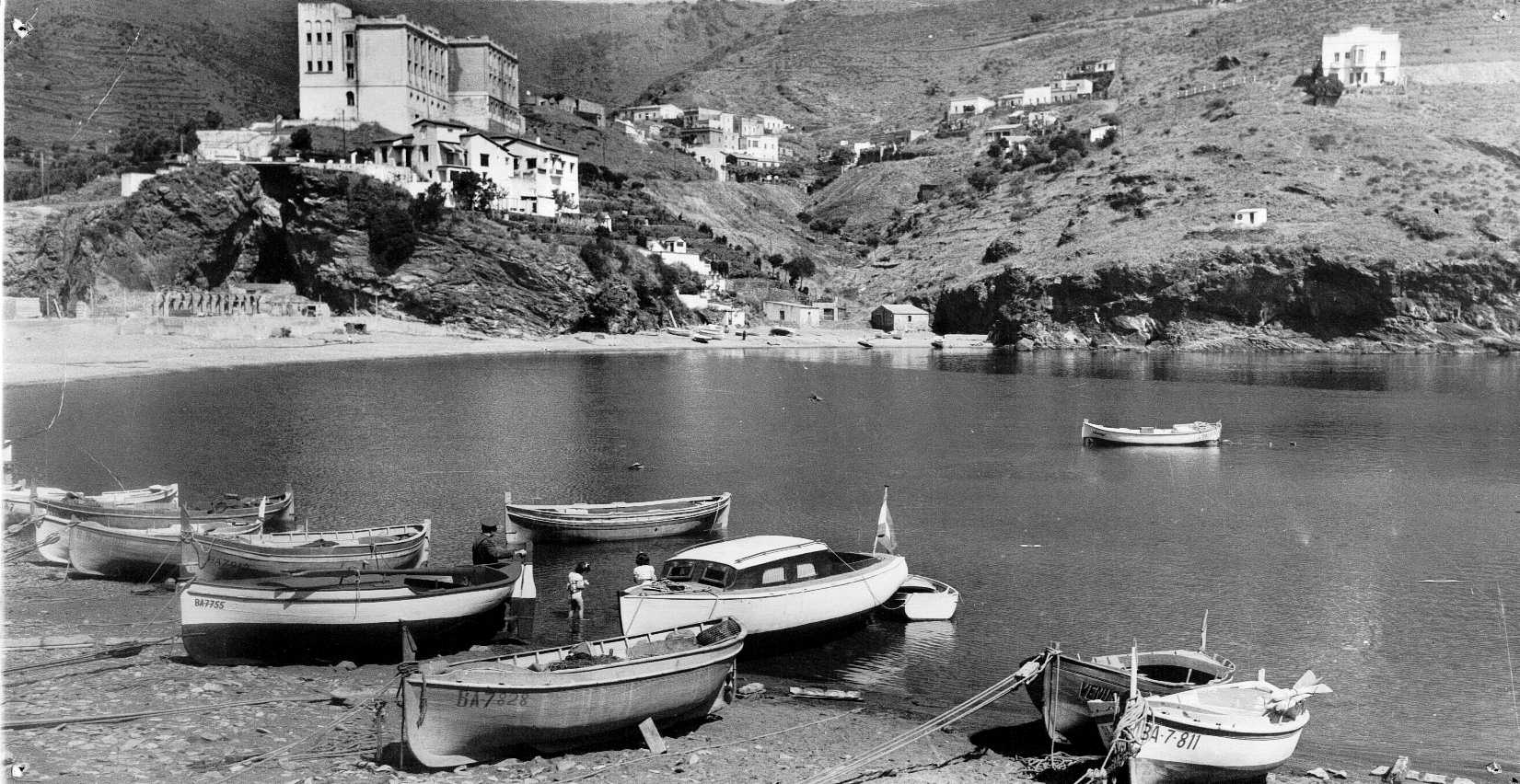 Catalunya, Alt Empurda, Portbou schools on 1936.